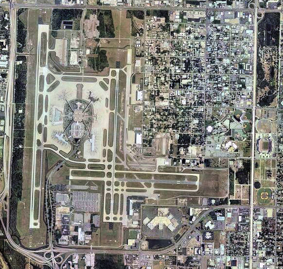 Aerial image of Tampa International Airport, Florida